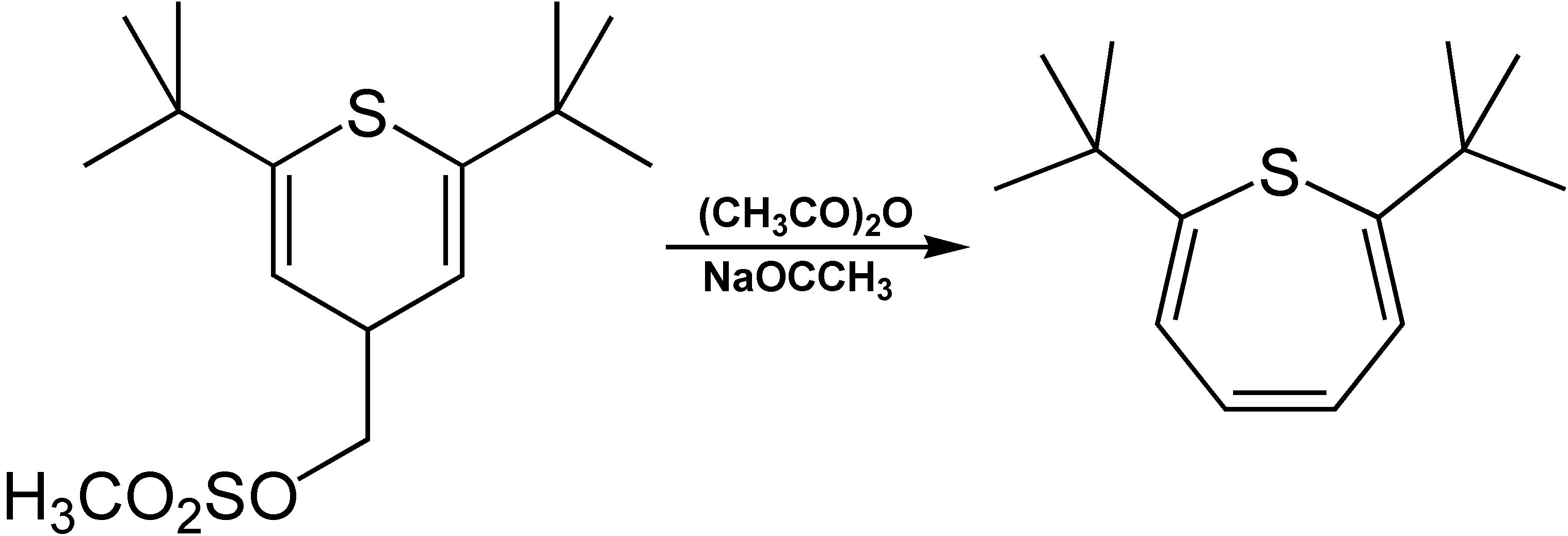 Synthese von 2,7-Ditertbutylthiepin